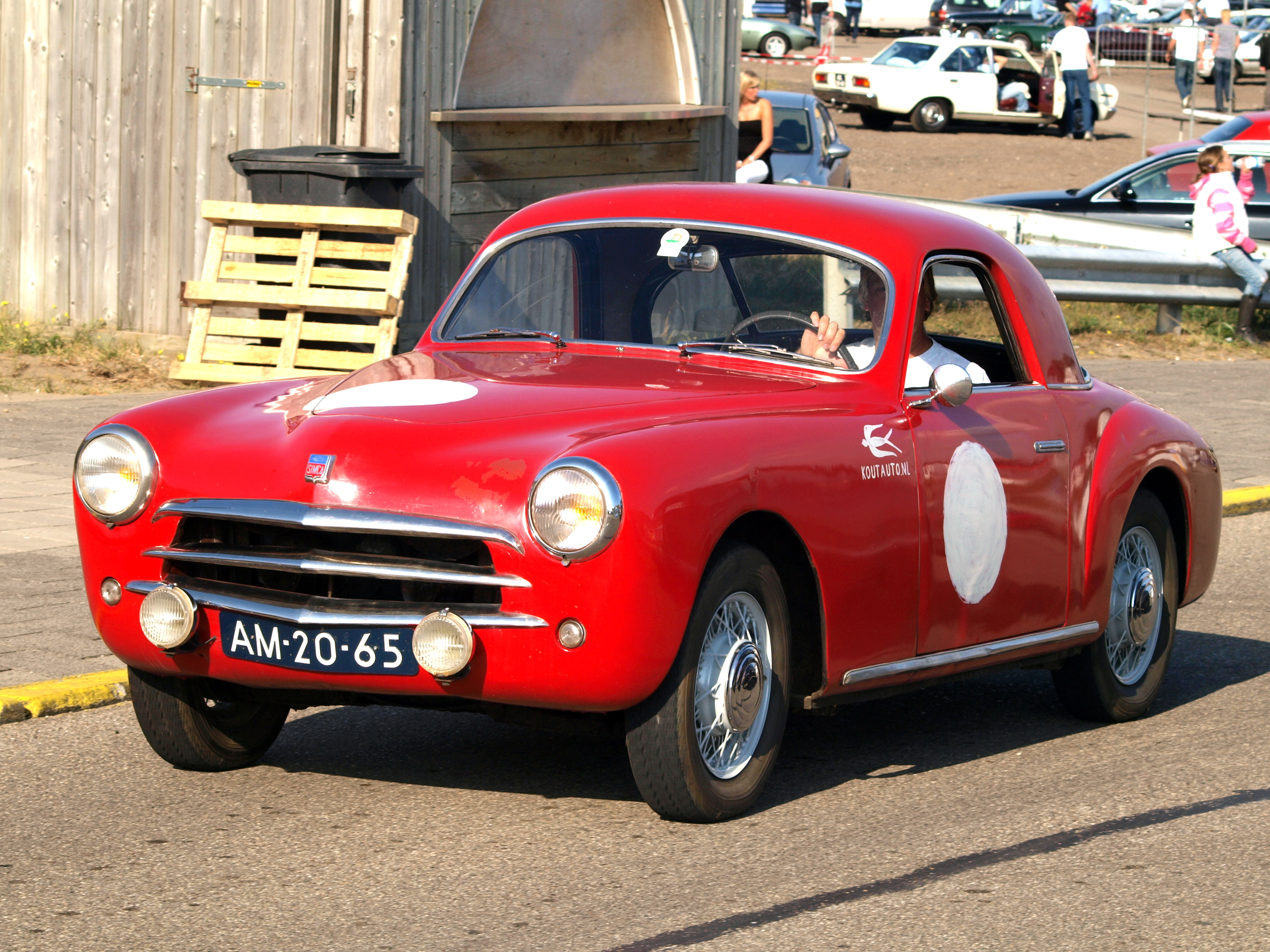 1952 Simca 9 Sport (1300) at the Nationaal Oldtimer Festival Zandvoort 2009, The Netherlands. Only about 200 of this interim model were built, with a Pinin Farina design which was later altered by Facel Metalon, who also executed the bodywork.